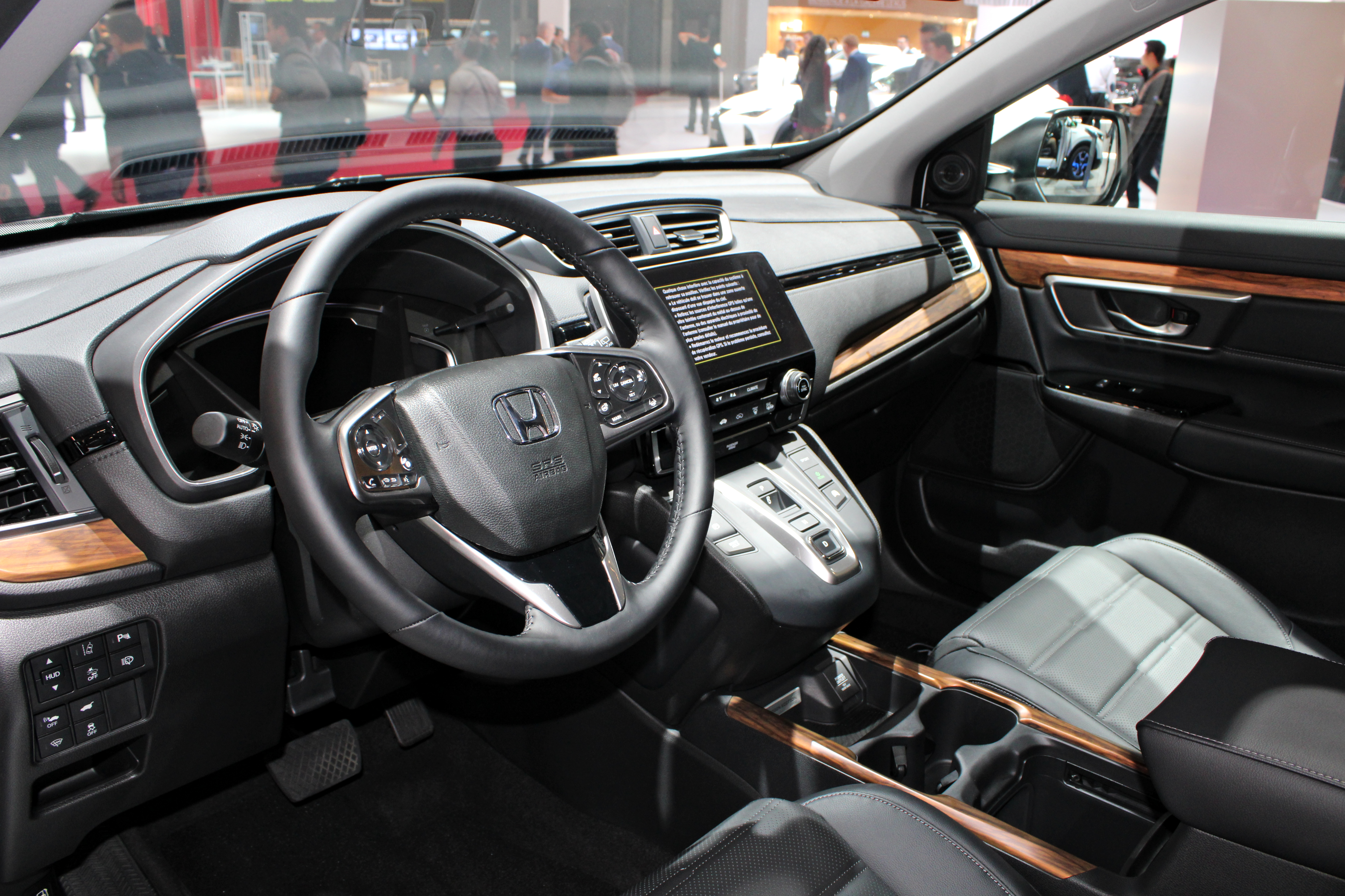 Honda CR-V Hybrid at Paris Motor Show 2018